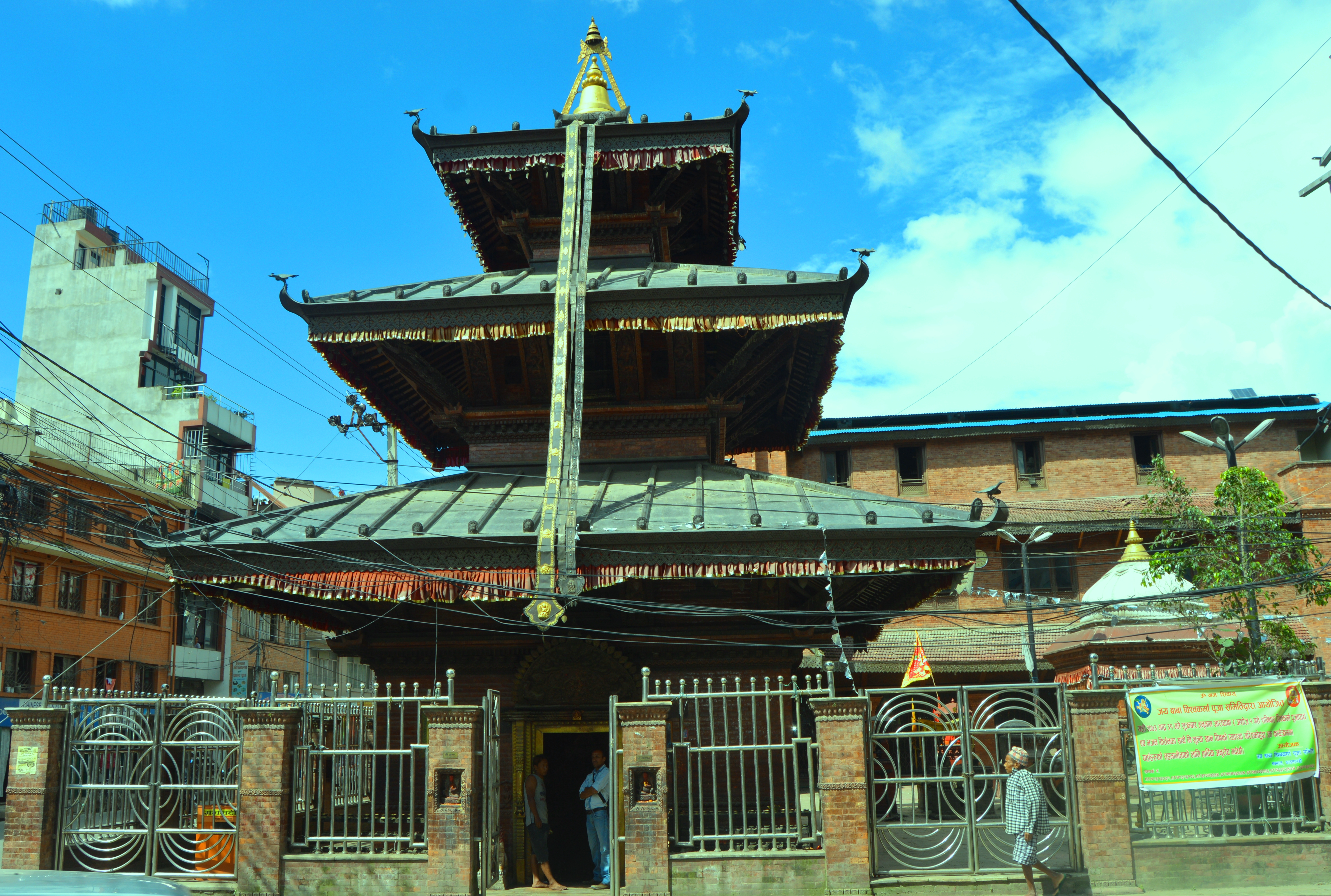 Naksaal Bhagwati Temple.This temple, whose major deity goddess is Bhagwati is a main attraction of Pilgrimes. The temple holds great historical, cultural and religious significance in locale and neighbors area.